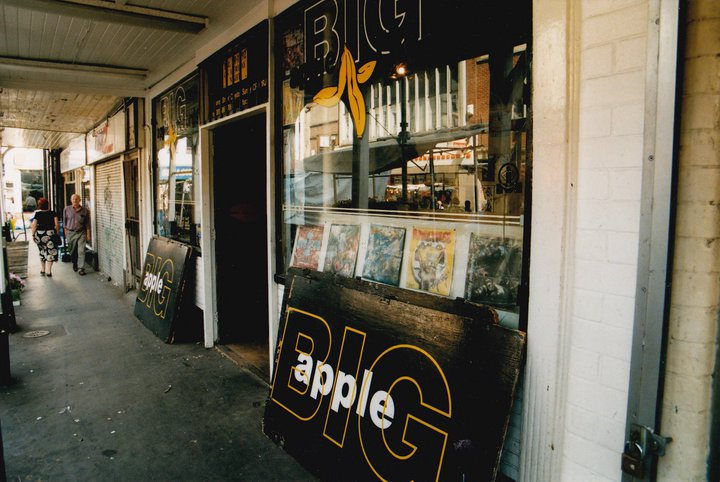 Big Apple Records circa 2000